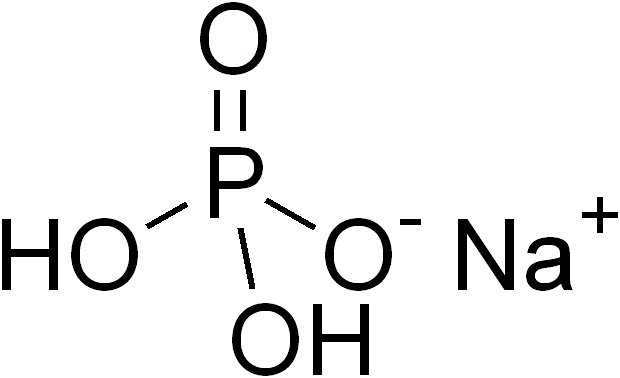 chemical structure of monosodium phosphate